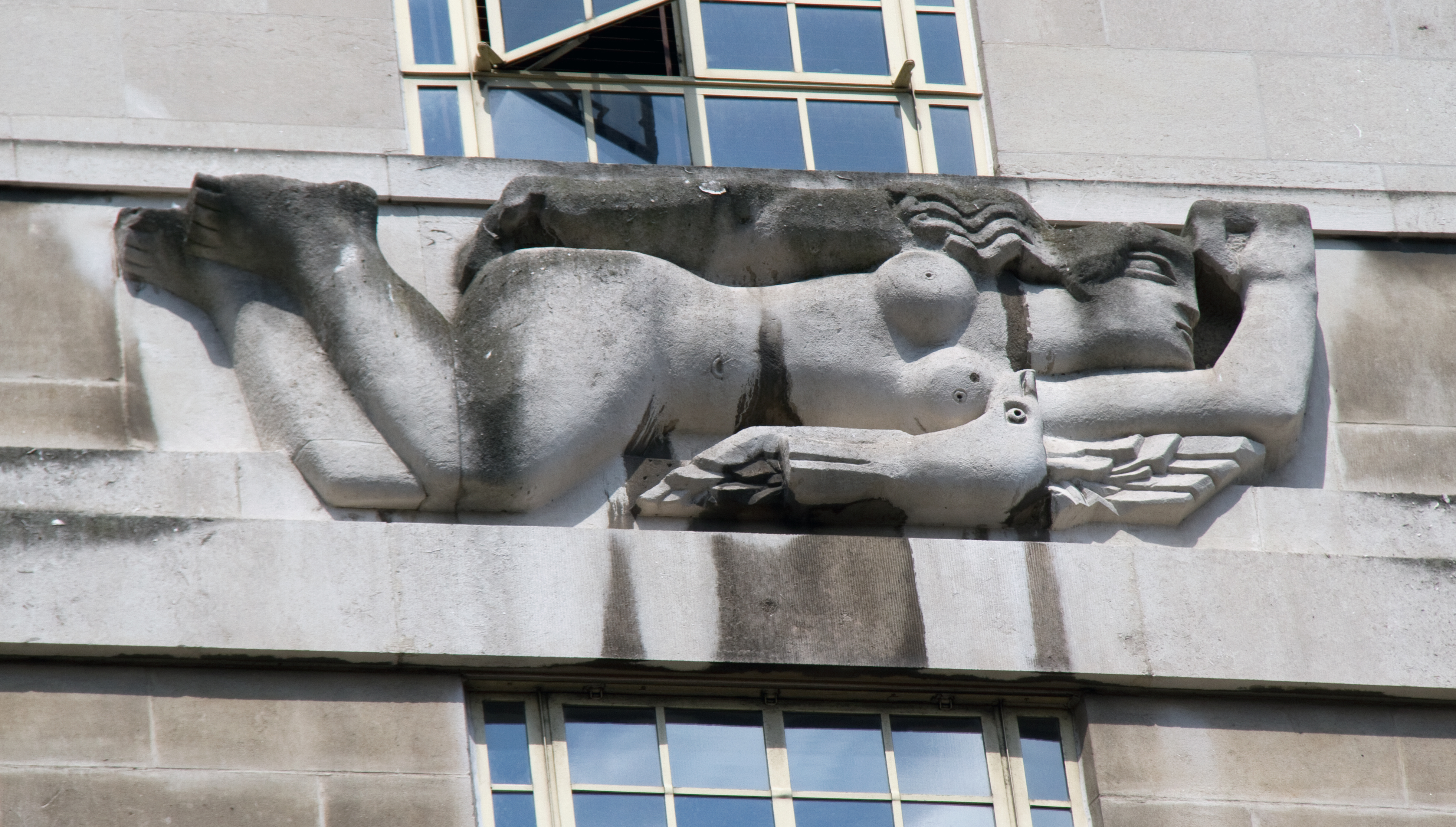 West Wind (1928–9) by Samuel Rabinovitch, 55 Broadway (St James's Park Underground station), London.